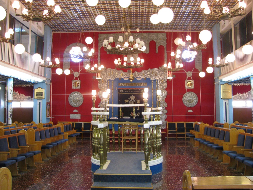 General view of the impressive interior synagogue